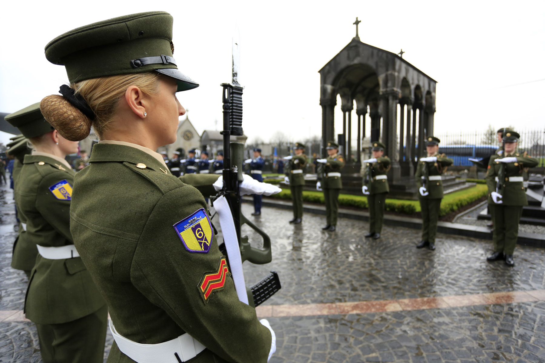 Cumman na mBan- Glasnevin Cemetery Dublin